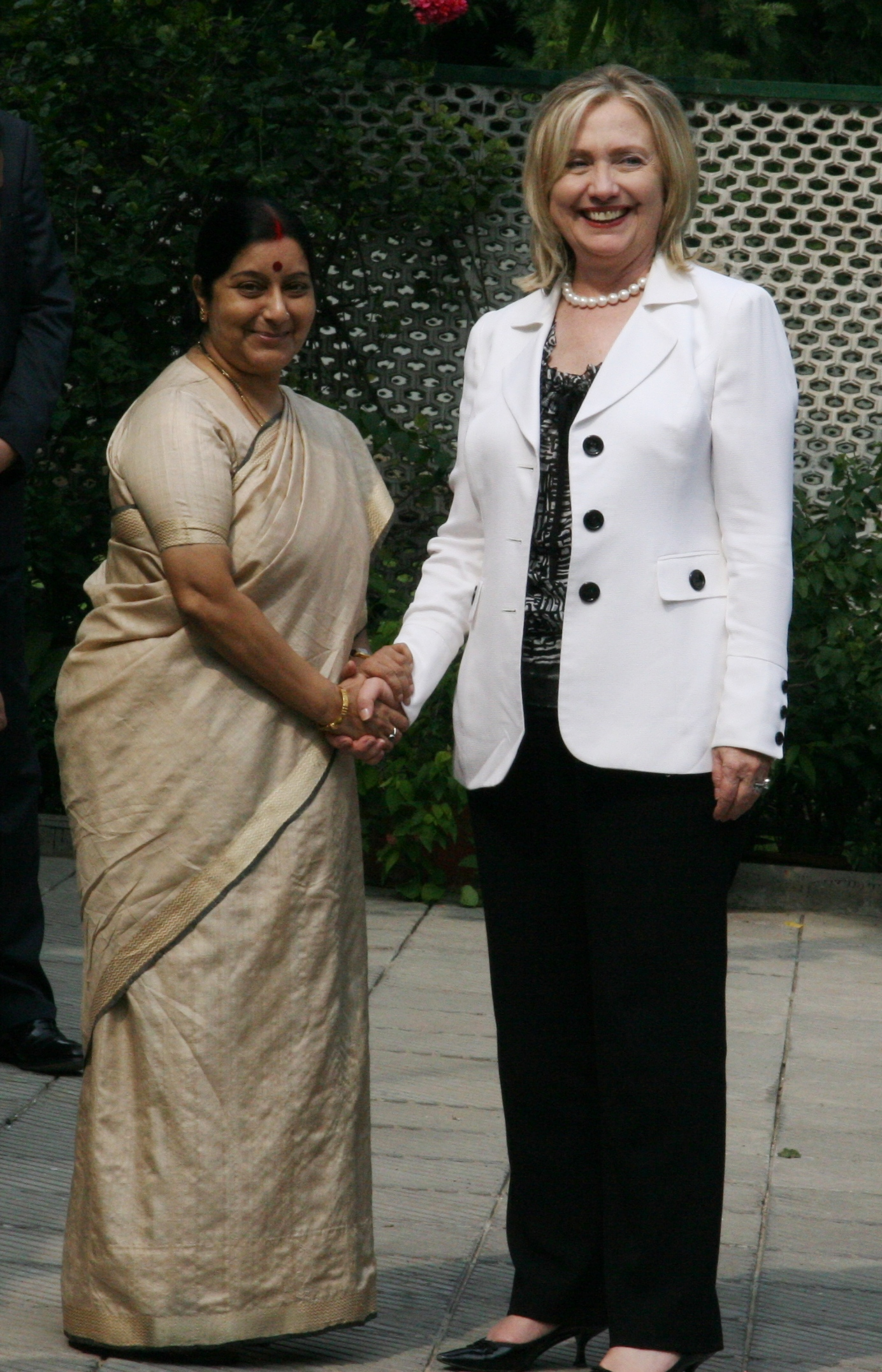 BJP Party leader Sushma Swaraj greets Secretary of State Hillary Clinton at her residence in New Delhi, July 19, 2011